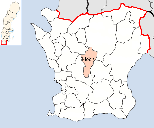 Höör Municipality in Scania, Sweden Designed by me. Mere outlines are a PD source from